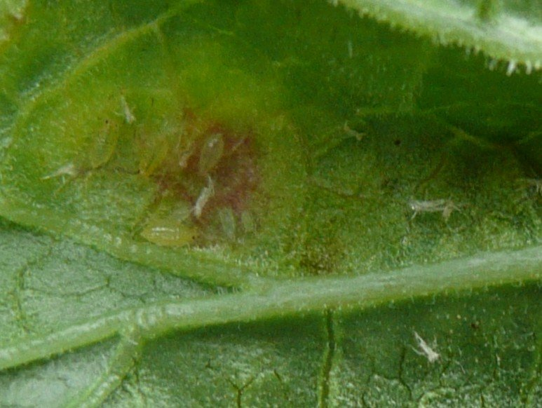 aphid on red currant, Cryptomyzus ribis